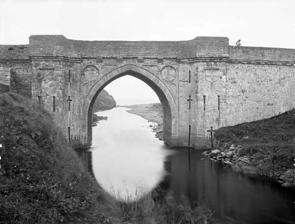 Bell Bridge, Miltown Malbay, Co. Clare French, R., & Lawrence, W. (. M.. (18651914). Bell Bridge, Miltown Malbay, Co. Clare.